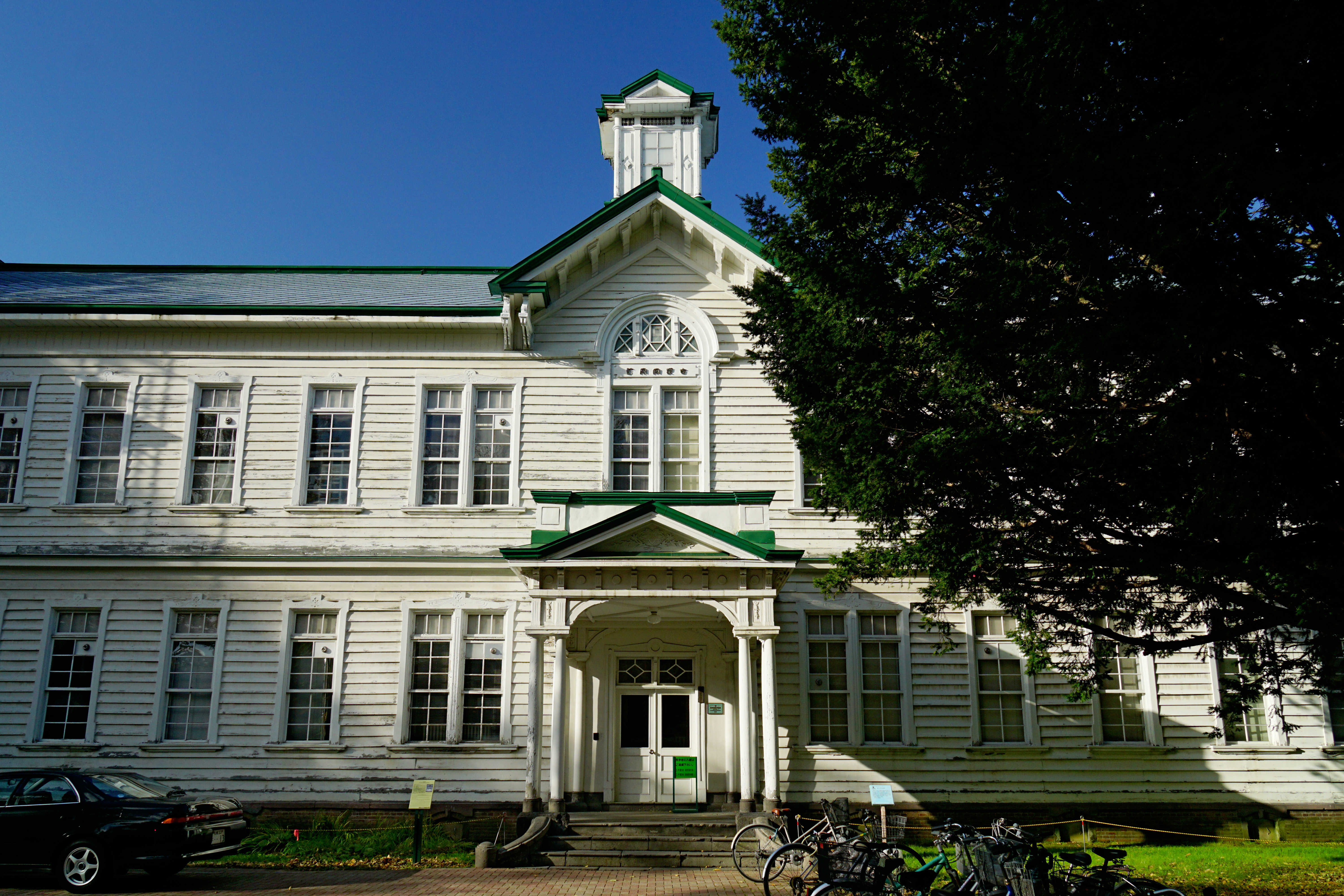 At Hokkaido University in Sapporo, Hokkaido prefecture, Japan.